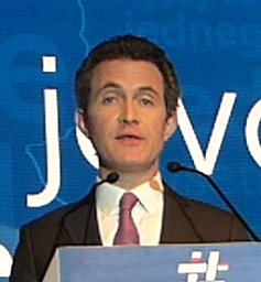 Keynote presentation: Douglas Murray, journalist, editor, author of “The Strange Death of Europe: Immigration, Identity, Islam”, United Kingdom: The migrant crisis of 2015 and its ongoing effects. The Future of Europe international conference. The 23rd of May, 2018. Polgári Magyarországért Alapítvány, XXI. Század Intézet, V4 Connects. Várkert Bazár, Budapest, Hungary, Central Europe.